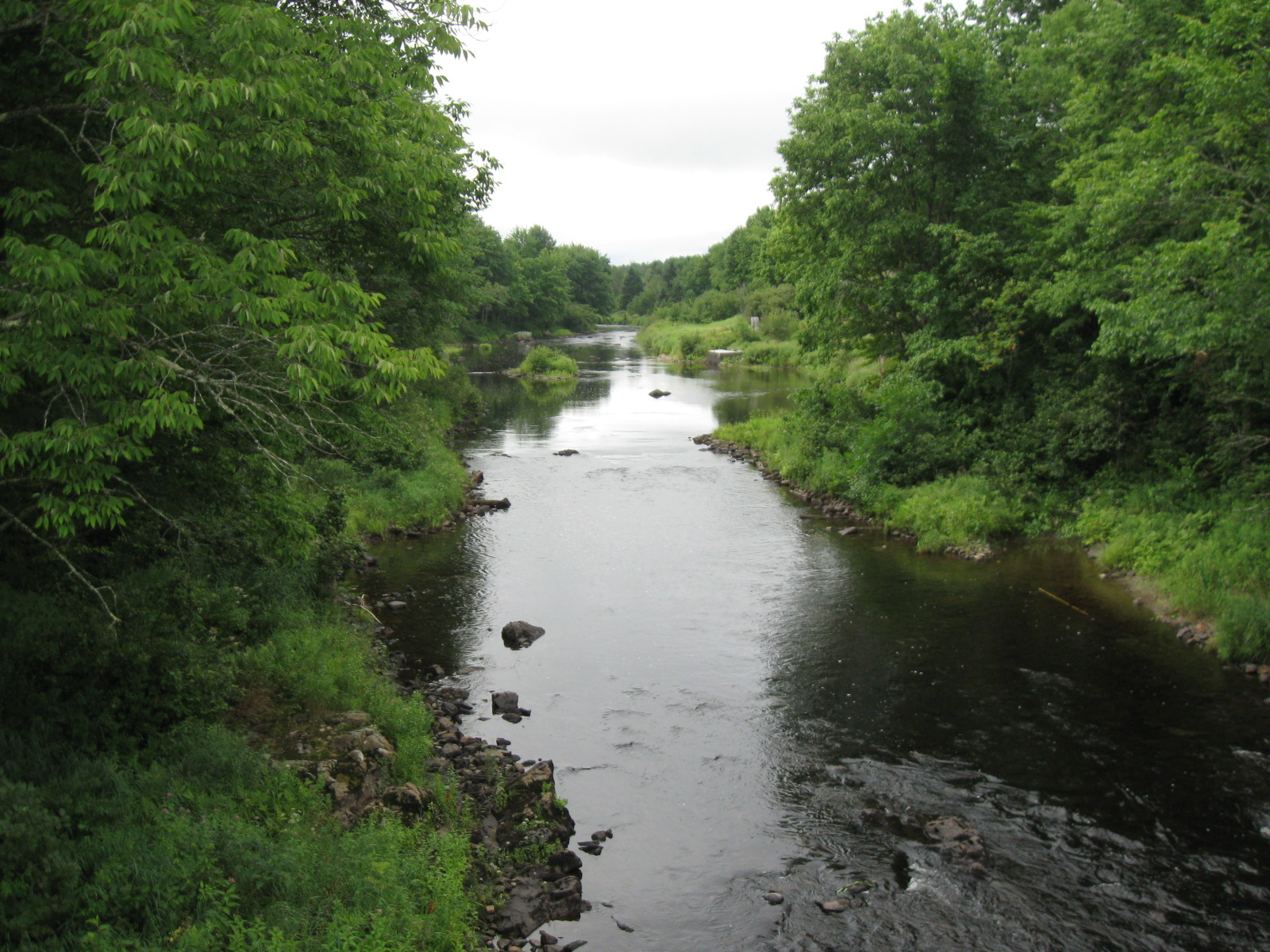 Dennys River in Dennysville. View from Bunker Hill Road bridge.